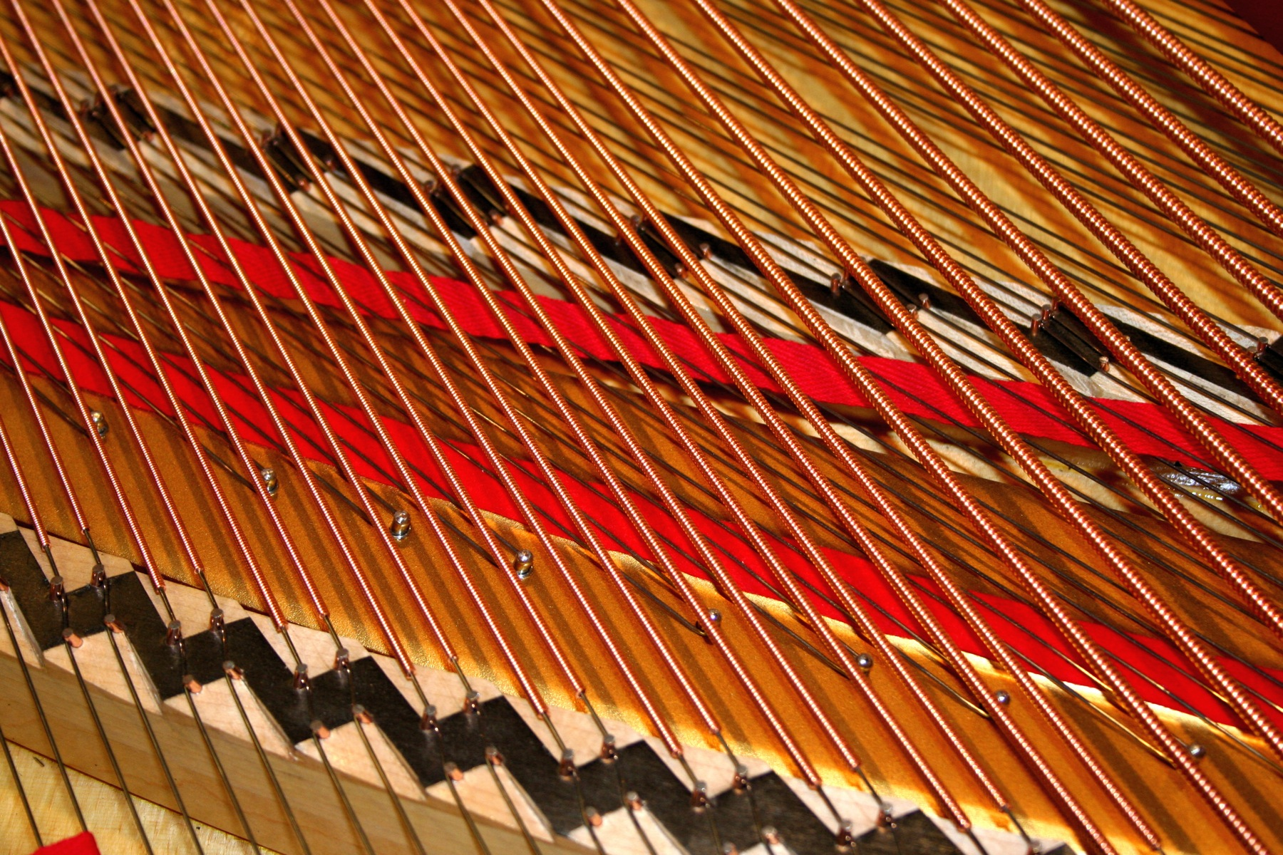 Piano strings